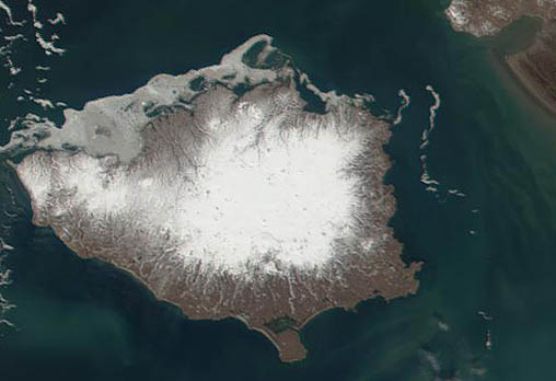 Terra-MODIS-Satellitenbild der Insel Nunivak (Alaska) im Beringmeer